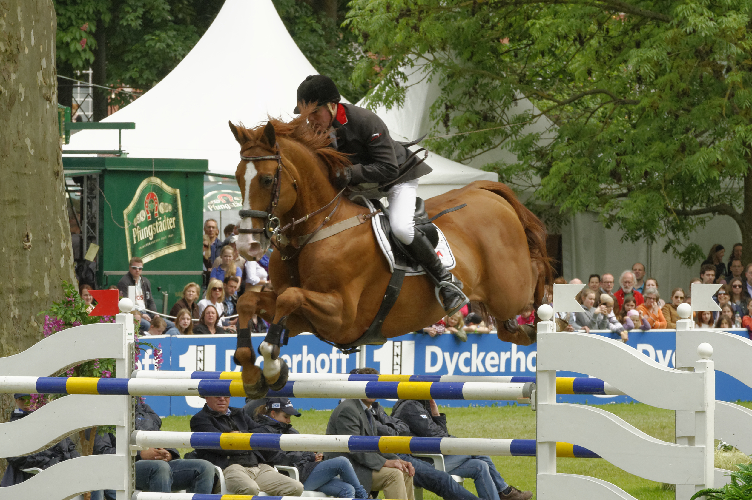 Internationales Pfingstturnier Wiesbaden 2013 The making of this document was supported by the Community-Budget of Wikimedia Germany.